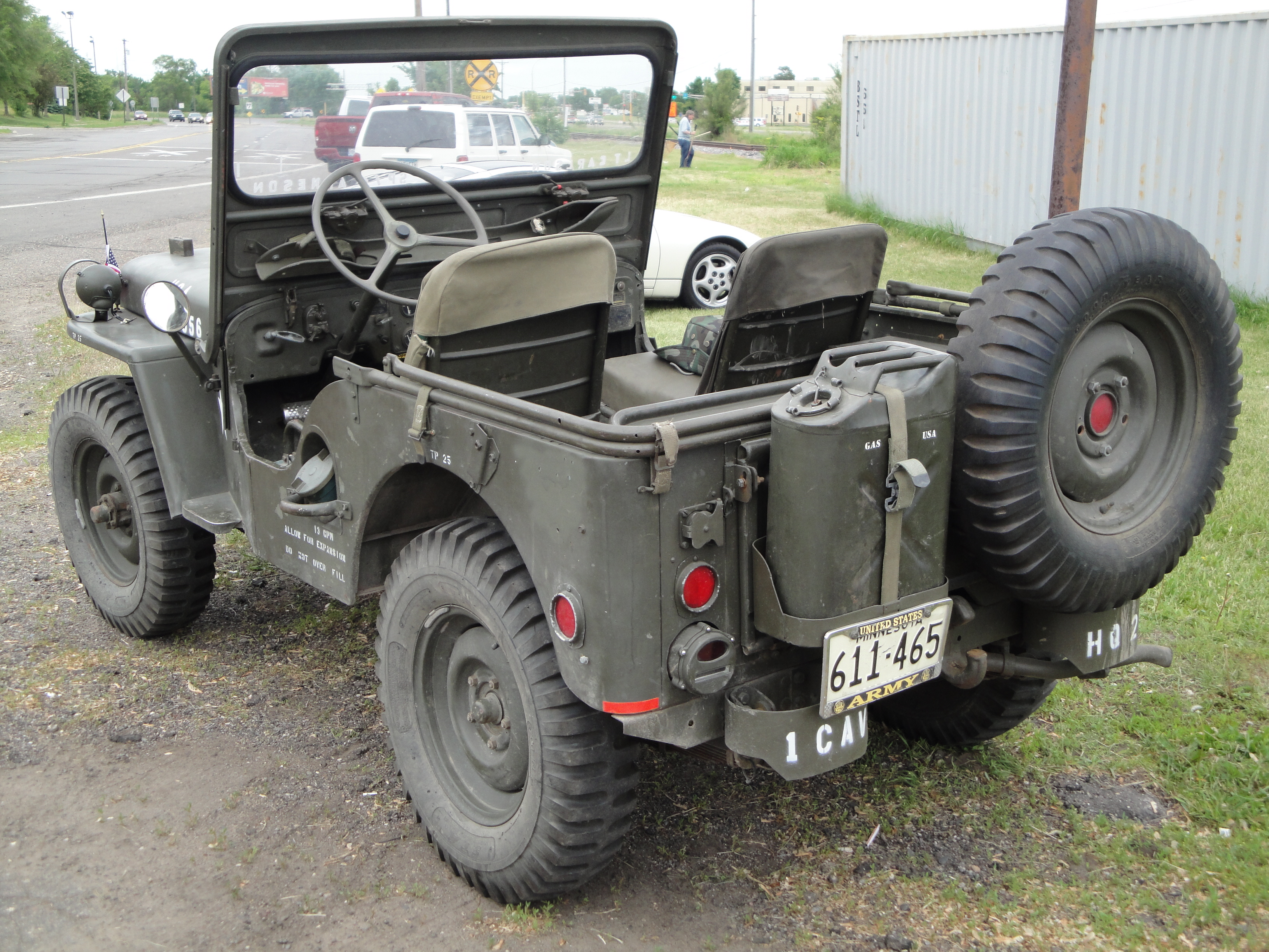 W.P.C. Restorers Club 10,000 Lakes Region Car Show June 12, 2011 Wagner's Drive in